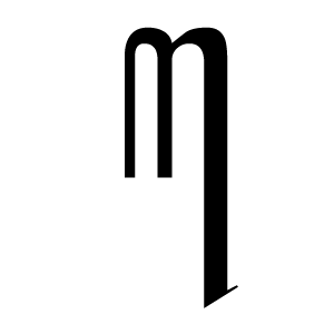 Javanese diacritic. Change vocal 'a' with e.